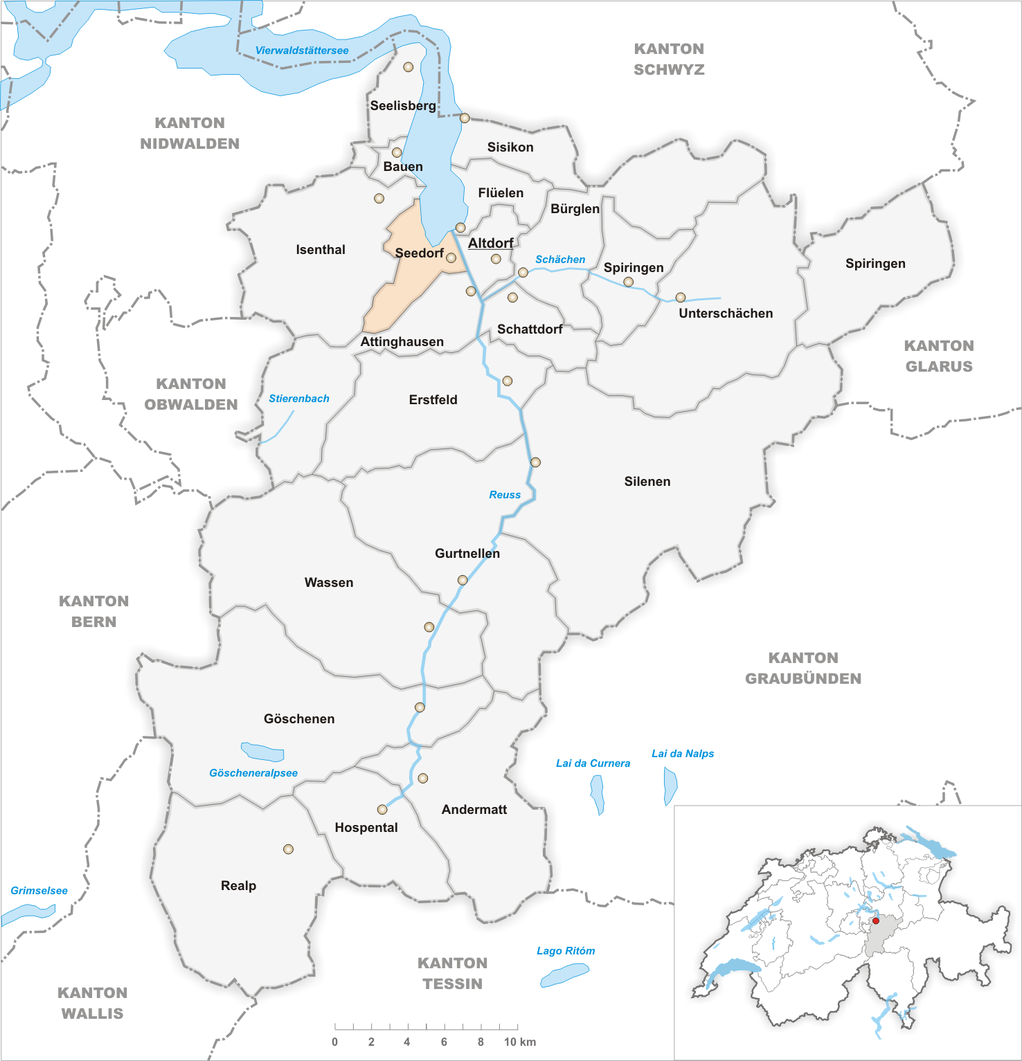 Municipality Seedorf